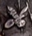 GERMANY, Braunschweig-Wolfenbüttel (Herzogtum). Heinrich Julius. 1589-1613. AR Taler (41mm, 29.05 g, 12h). Osterrode mint. Dated 1599. Twelve coats-of-arms / Crowned lion seated left, surrounded by ten wasps; eagle with wings spread above; to left, rays emerging from cloud. Welter 630; Davenport 9093. Good VF, toned.